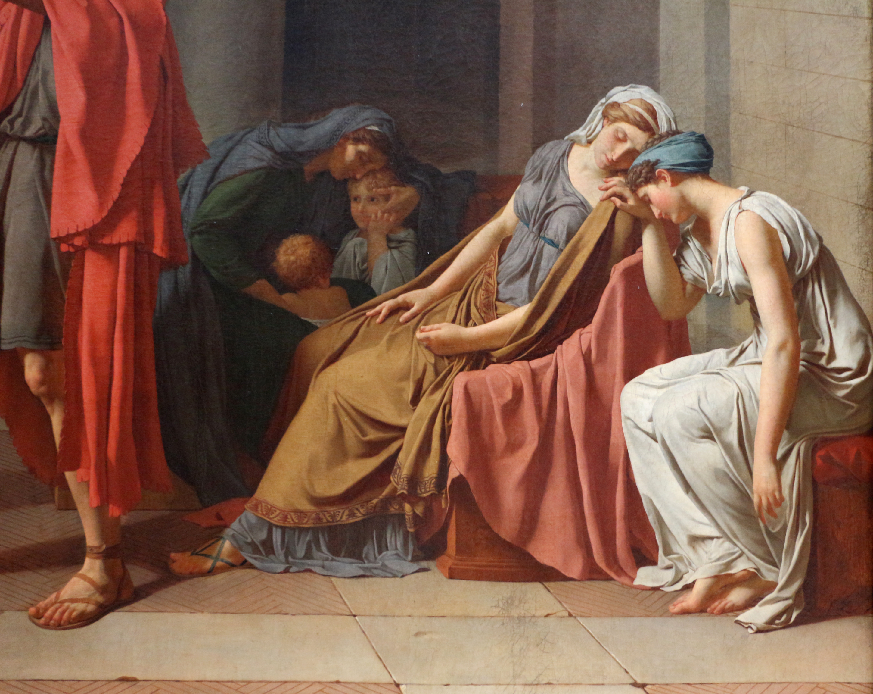 Paintings by Jacques-Louis David in the Louvre